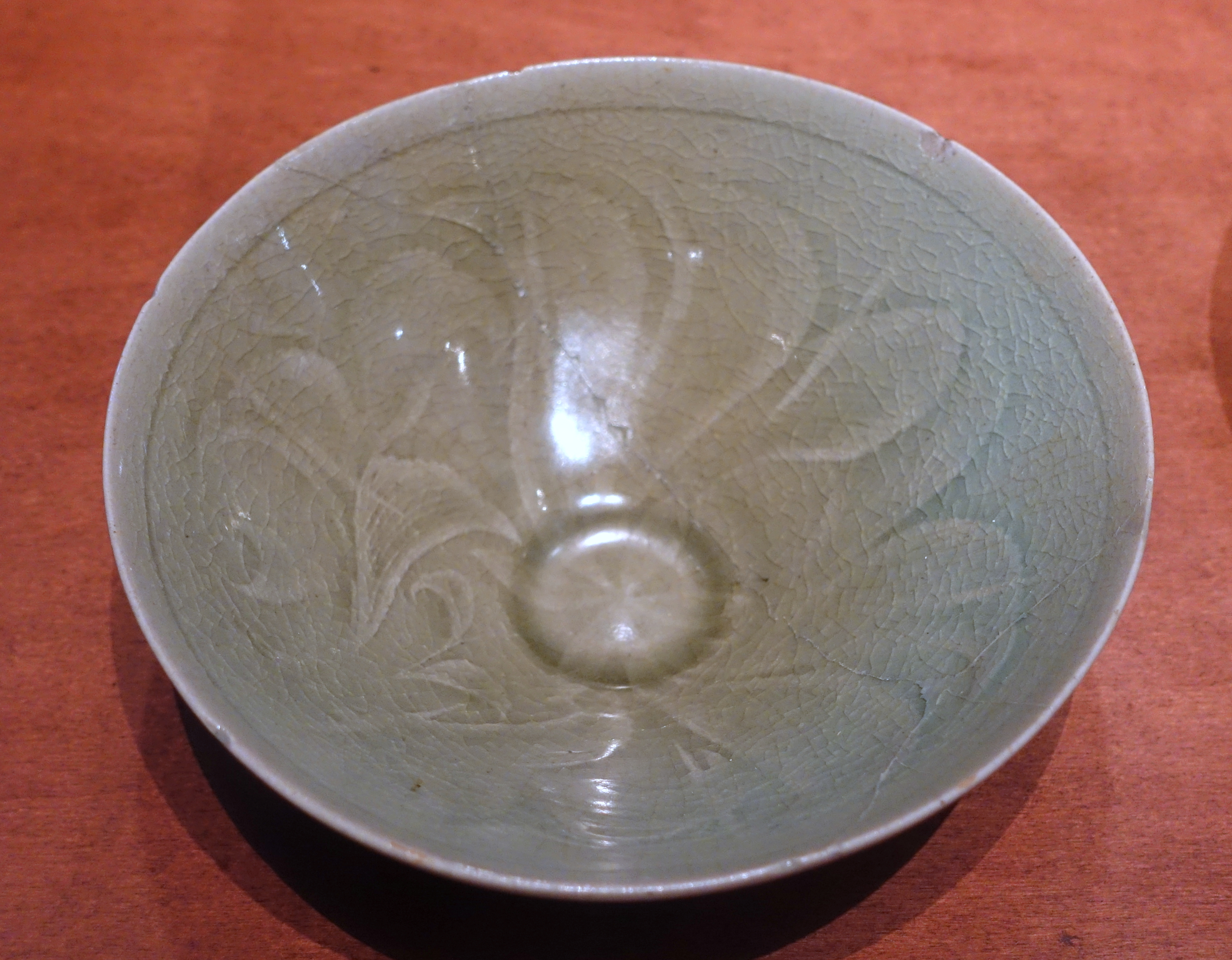 Exhibit in the National Museum of Natural History, Washington, DC, USA. This artwork is in the public domain because the artist died more than 70 years ago.